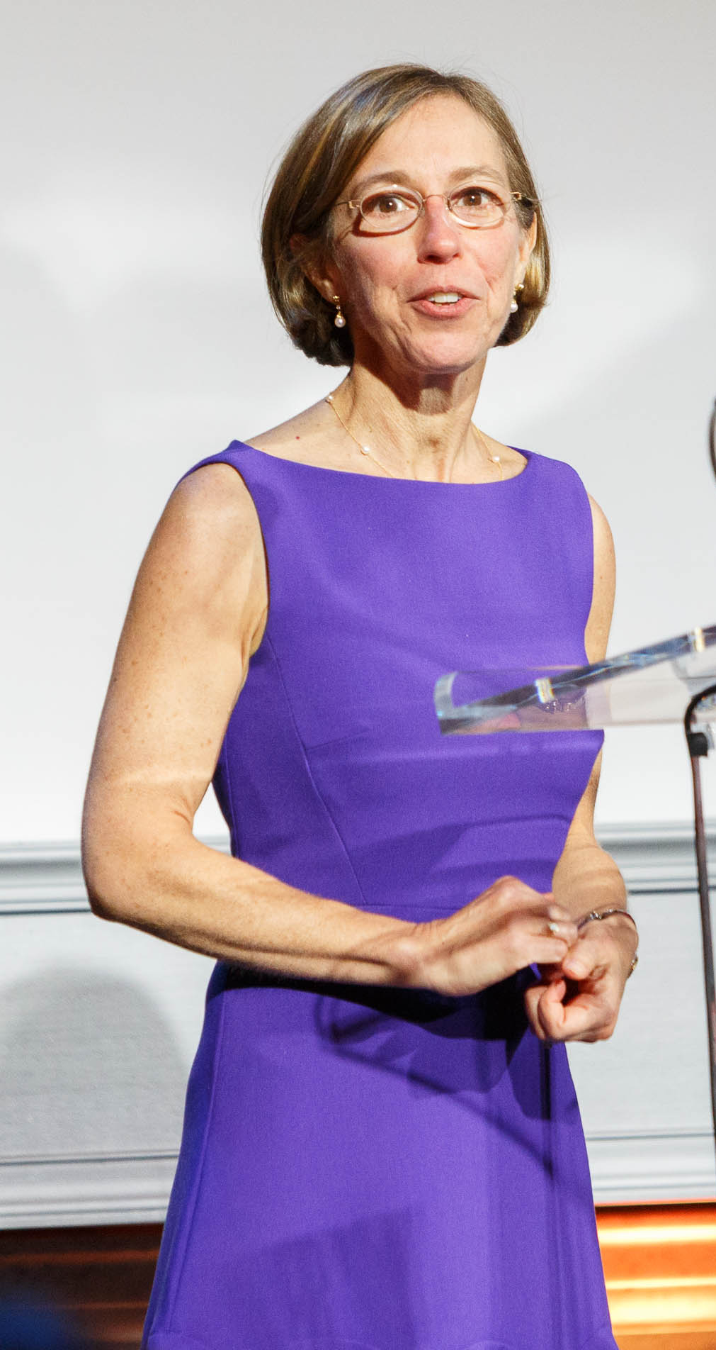 Jeannie Lavine speaks at the gala ceremony for the inaugural Library of Congress Lavine/Ken Burns Prize for Film, October 17, 2019. Photo by Shawn Miller/Library of Congress. Note: Privacy and publicity rights for individuals depicted may apply.